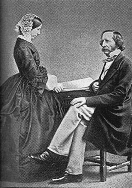 Pauline, Lady Trevelyan (1816–1866) and Sir Walter Calverley Trevelyan (1797–1879)